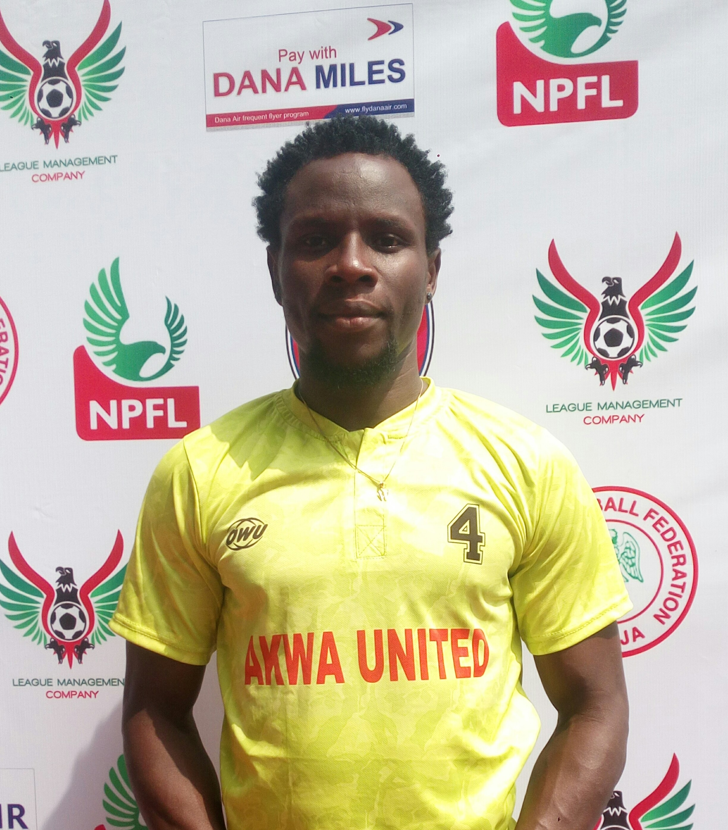 English